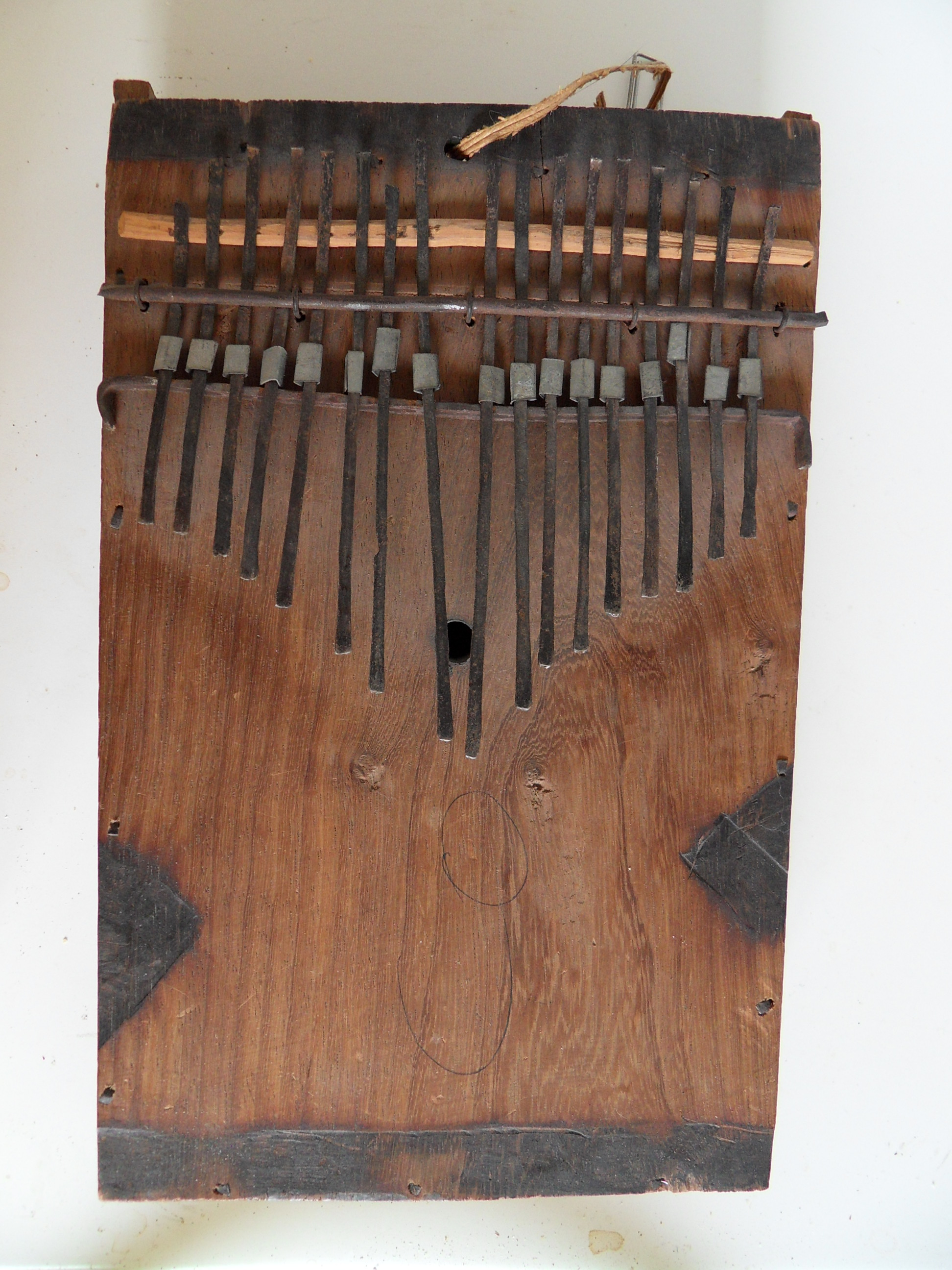 Mbira from Tanzania